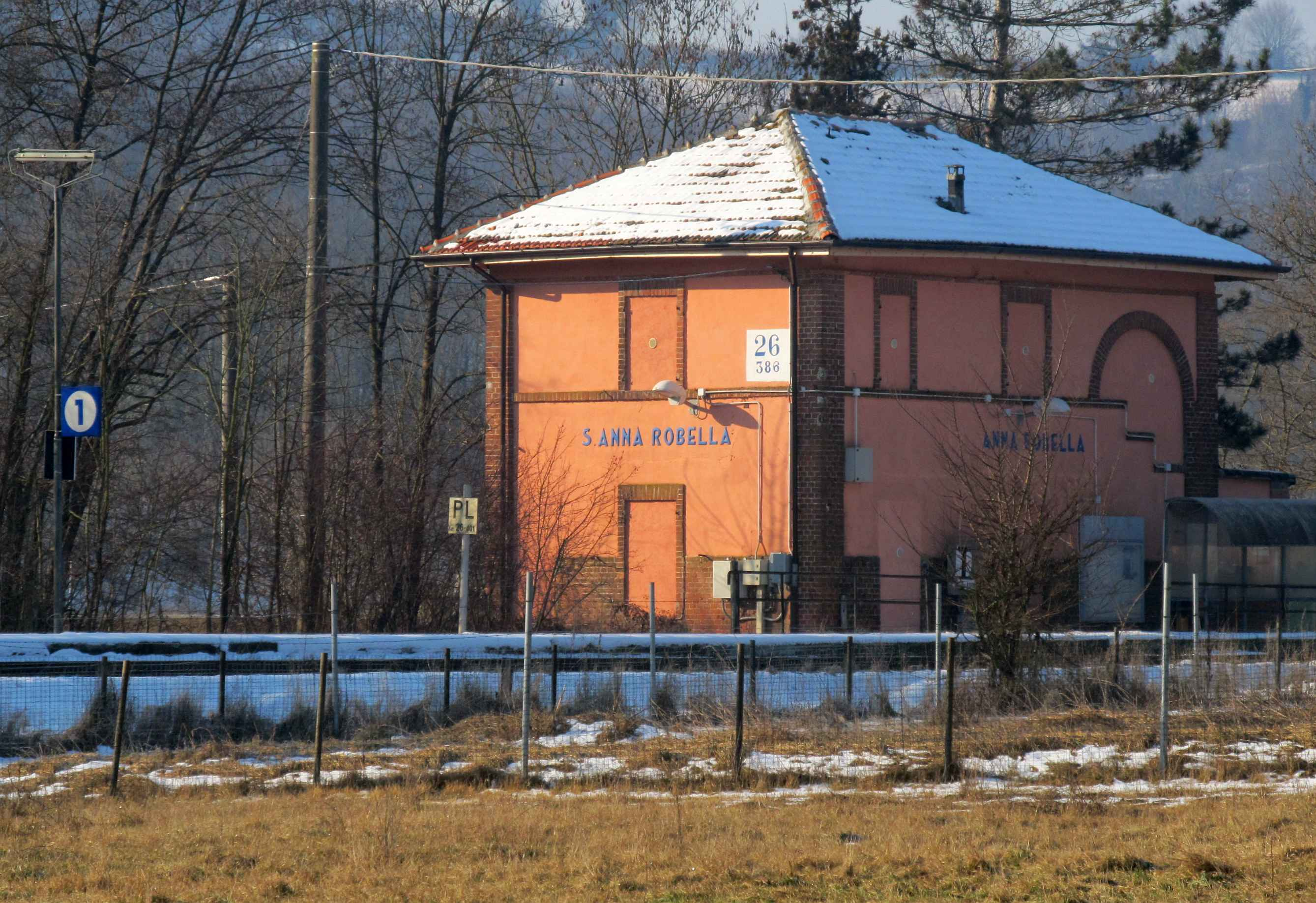 Sant’Anna-Robella train station (winter 2013)